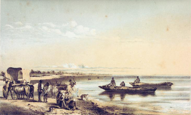 Lake Ngami: Discovered by Oswell, Murray & Livingstone. From a drawing made on the spot 1850, by the late Alfred Ryder, Esq.